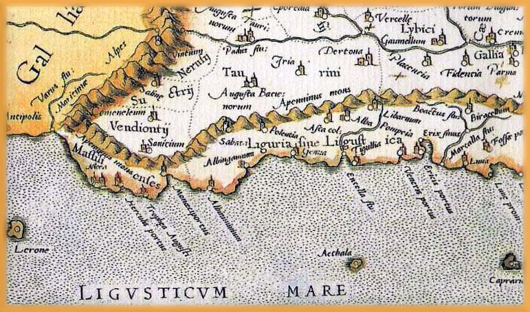 The ligure area in the cartography of Mercator, in 1576, inspired since a chart of Claudius Ptolemy (83 a.d - 161a.d) and a description of Pliny the Elder (a.d 23 - 79 a.d).